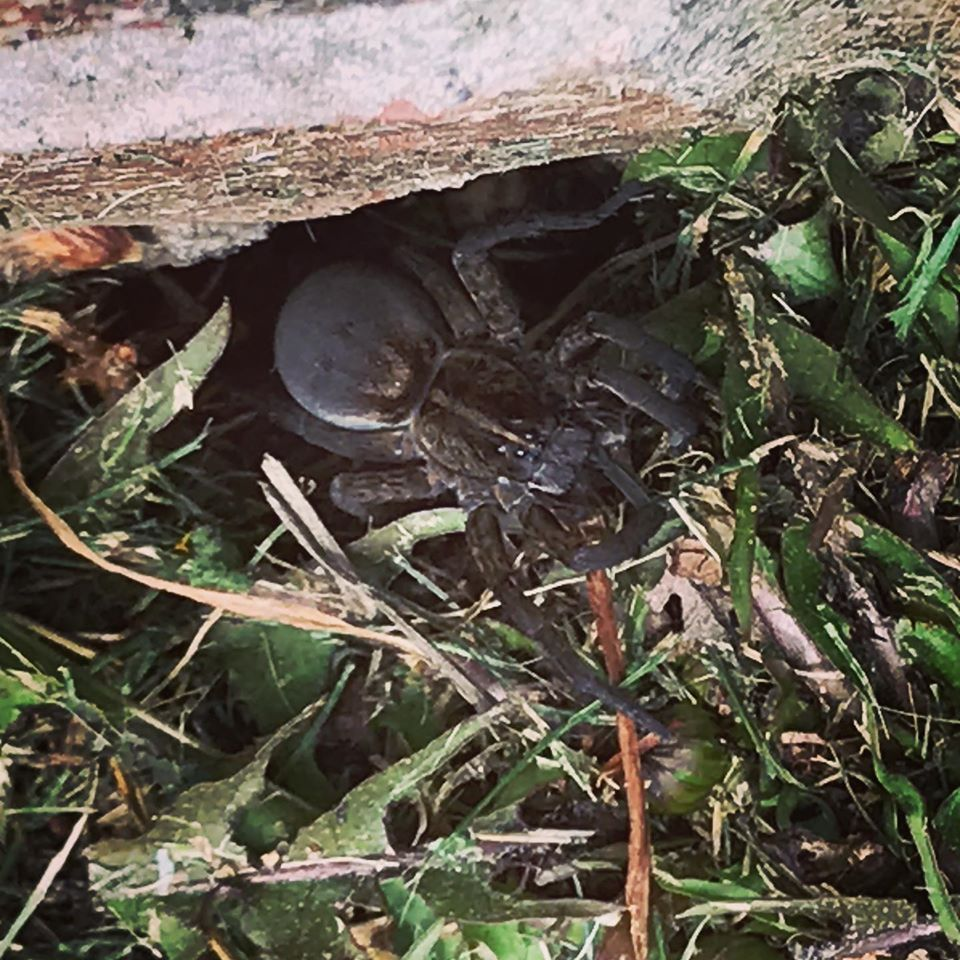 Northeastern wolf spider